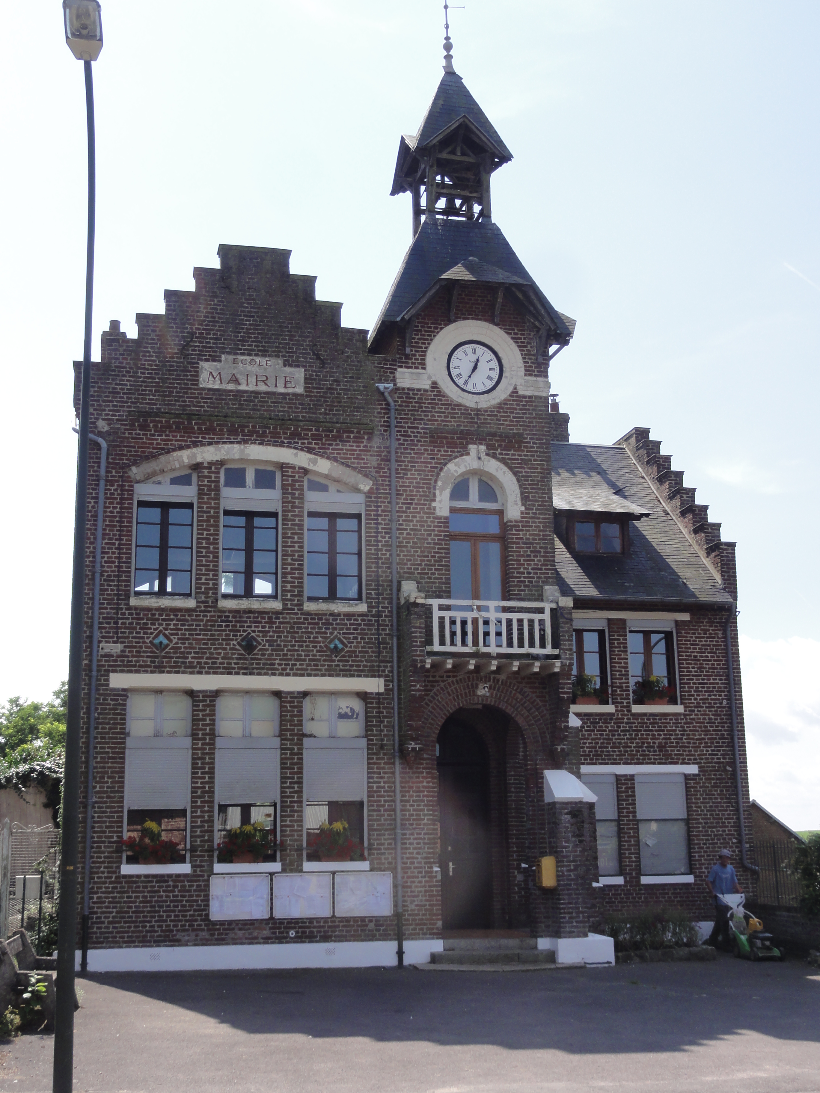 Commenchon (Aisne) mairie-école